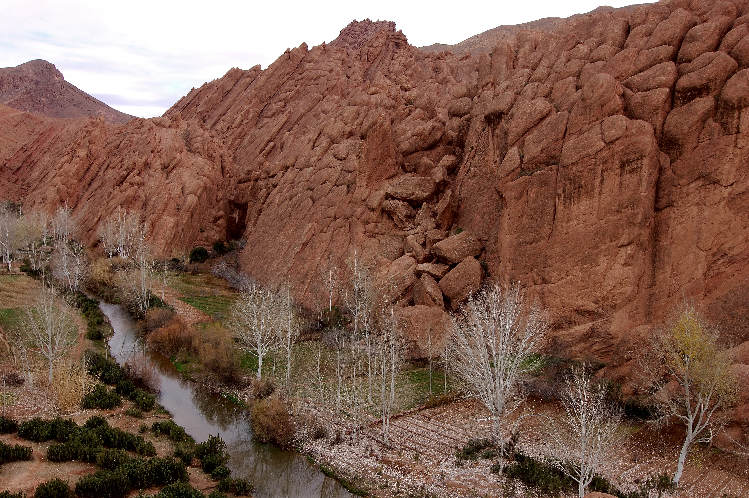 Dadès Valley, High Atlas, Morocco